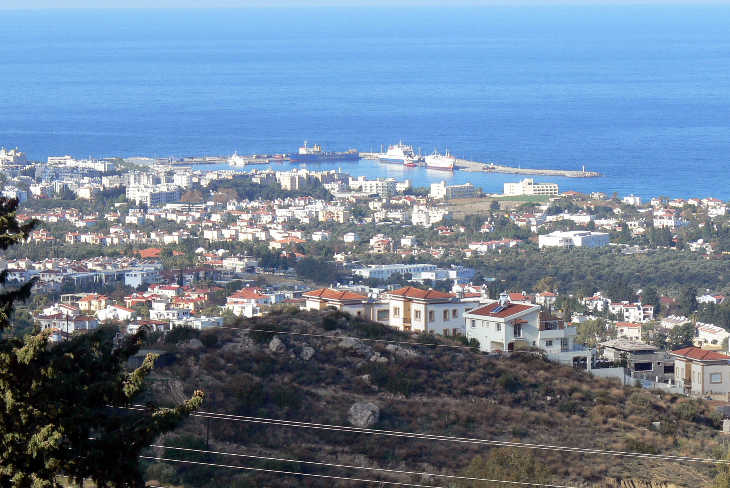 Bellapais ( Northern Cyprus ). View to Kyrenia.